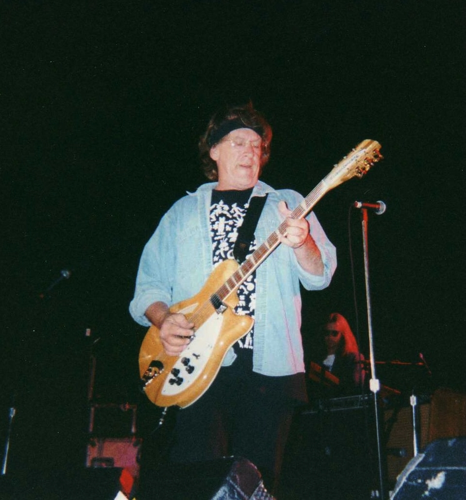 Paul Kantner in concert with the Jefferson Starship, at a private event for the SCO Forum96 computer conference in the courtyard of Cowell College at University of California, Santa Cruz.